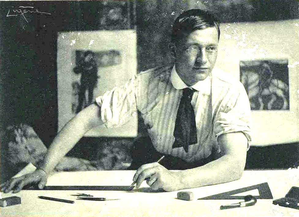 Teh german architect Otho Orlando Kurz (1881-1933)